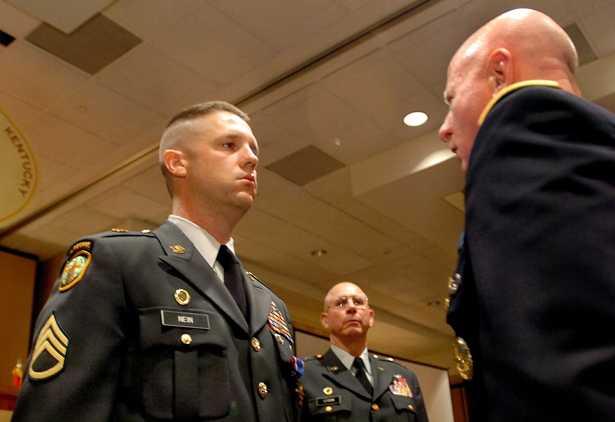 Kentucky Army National Guard Staff Sgt. Timothy Nein, left, remains at attention after receiving the Distinguished Service Cross from Army Lt. Gen. H. Steven Blum, chief of the National Guard Bureau, in Lexington, Ky., Feb. 17, 2007.